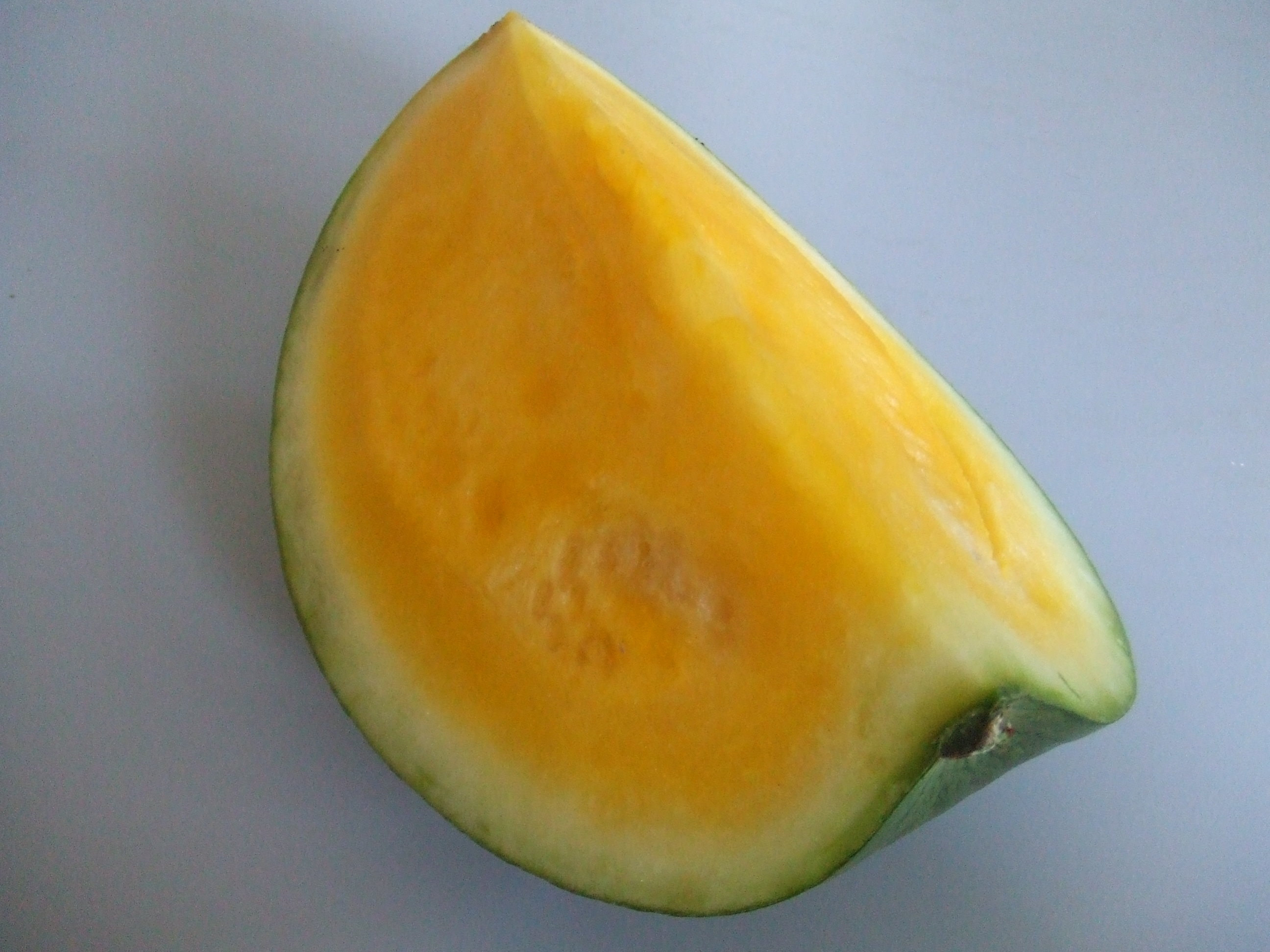 Watermelon (Citrullus lanatus) with yellow flesh, bought at the Binnenrotte market in Rotterdam, The Netherlands